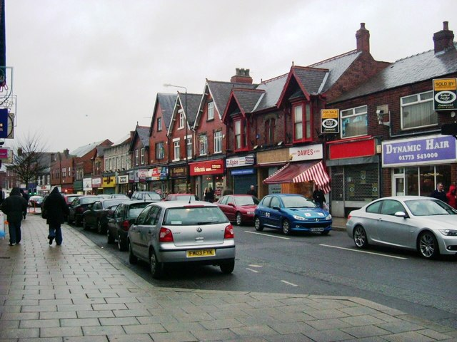 Alfreton - High Street Alfreton - High Street, looking towards King Street.